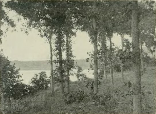 Illustration in History of Iowa From the Earliest Times to the Beginning of the Twentieth Century